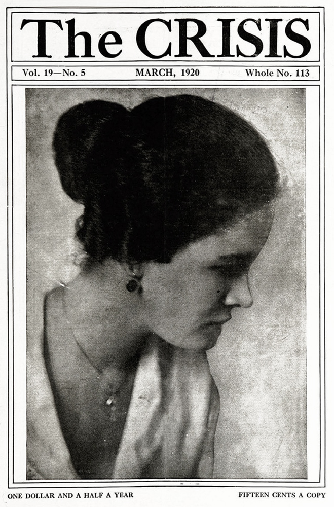 Cover photo of The Crisis (vol. 19, no. 5, March 1920), shot by C. M. Battey.